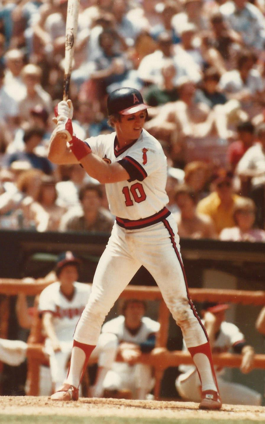 Butch Hobson